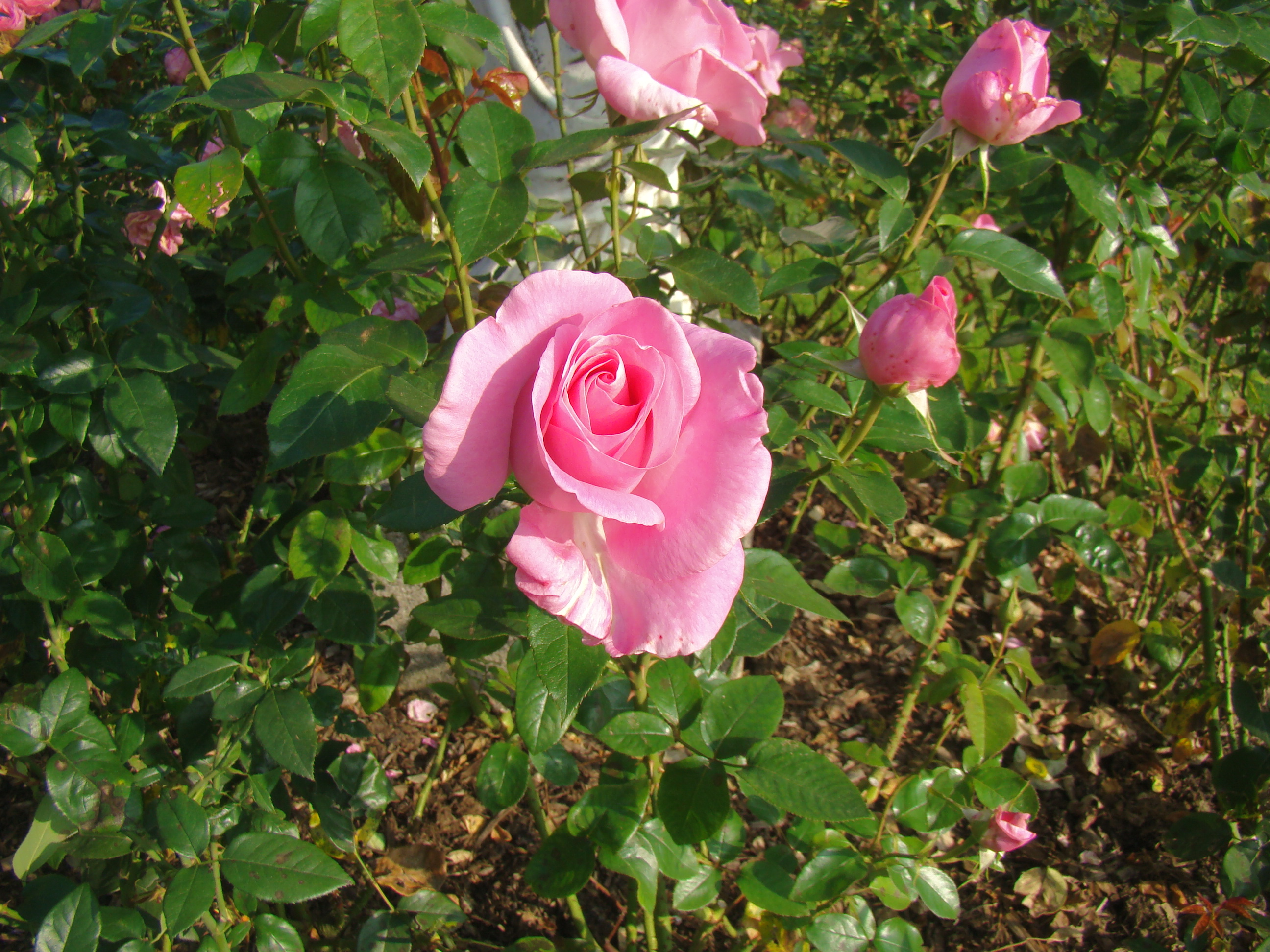 Rose de Rennes in the botanical garden of Thabor park.